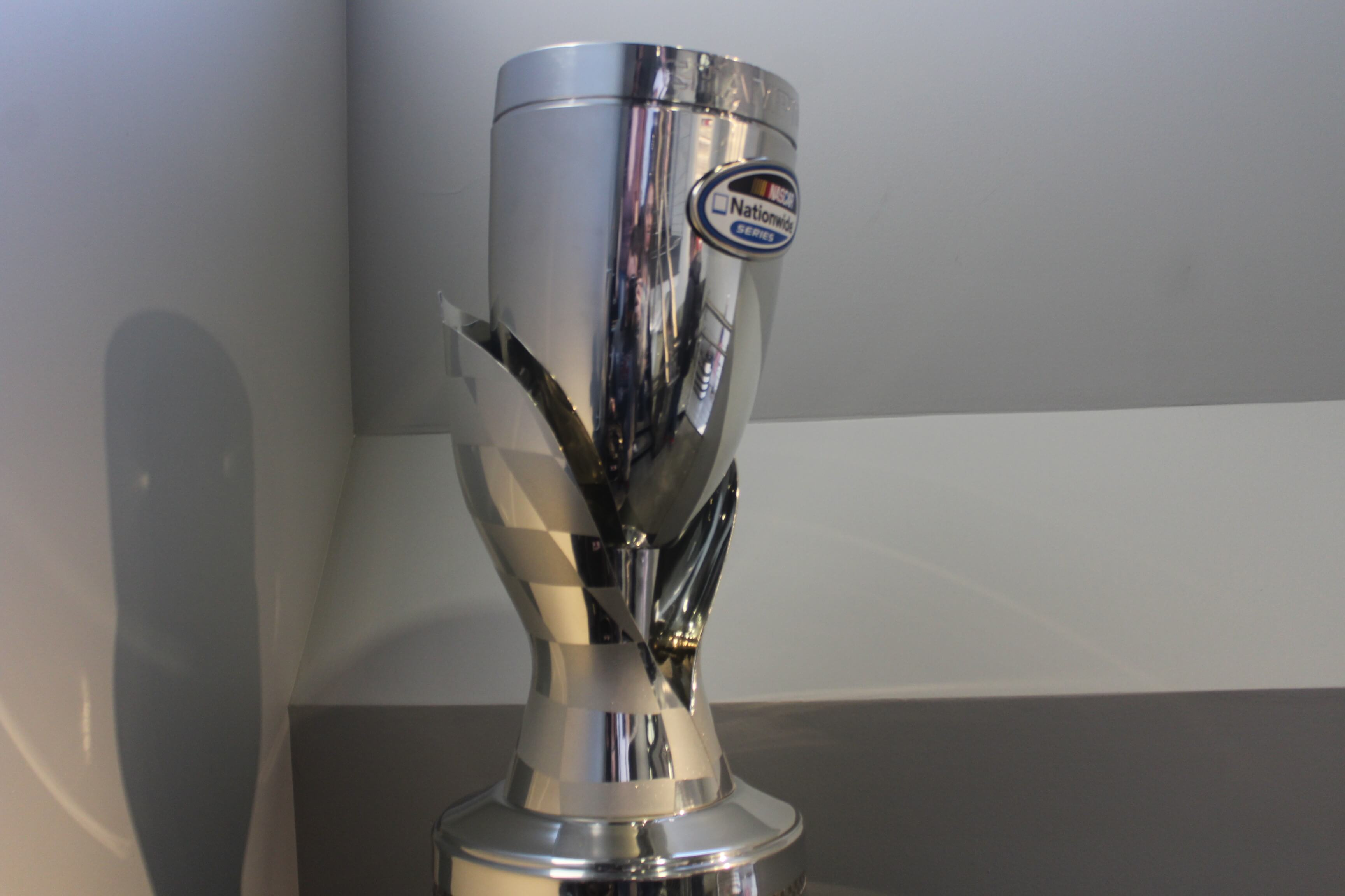 Brad Keselowski's 2010 Nationwide Series Championship Trophy, on-display at the Brad Keselowsi Racing shop in Statesville, NC.